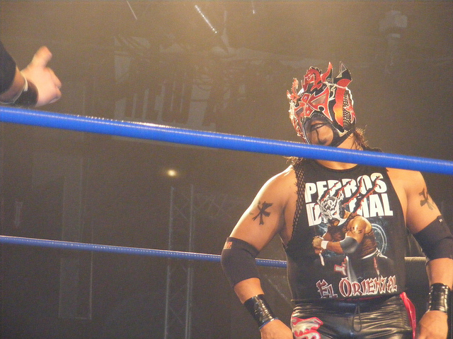 Masked Mexican wrestler El Oriental during an event in April